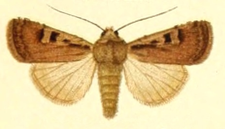 Image from Plate 7 of Die Gross-Schmetterlinge der Erde (The Macrolepidoptera of the World) Vol. 3